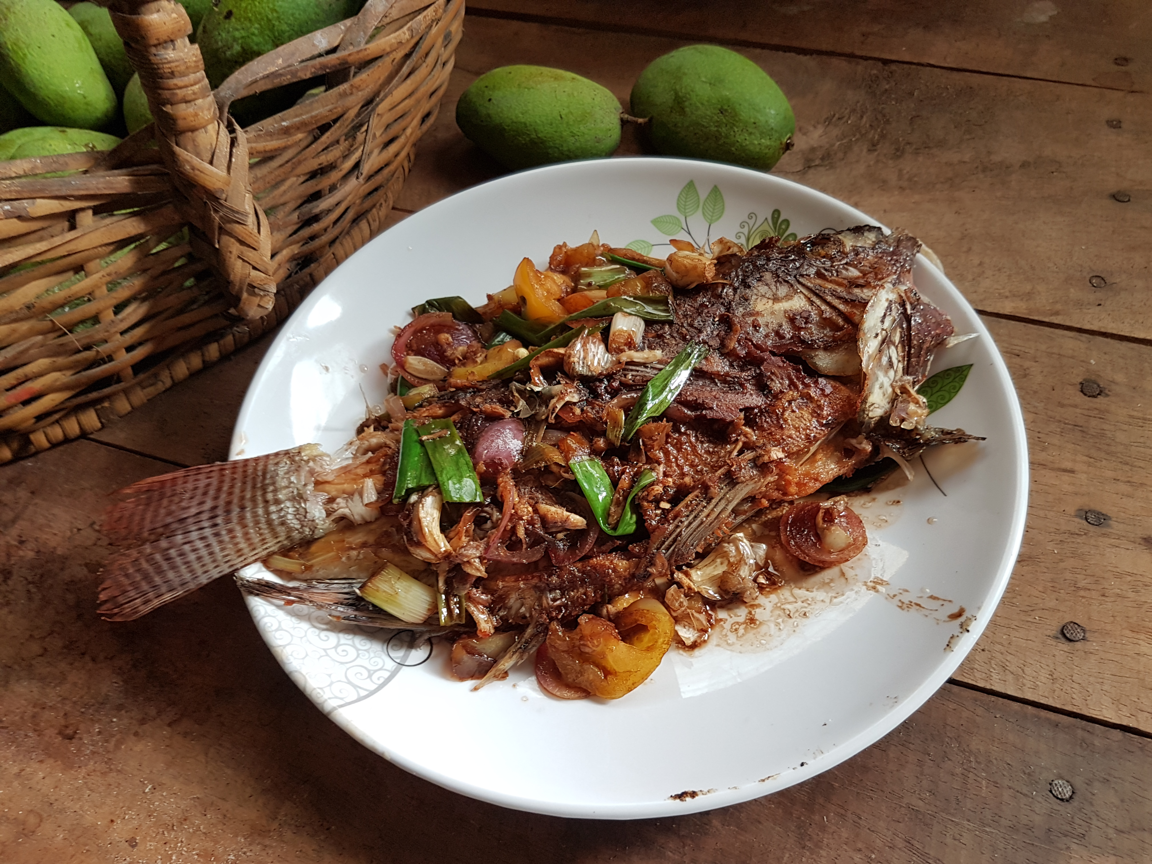 Escabeche from the Philippines made with Tilapia